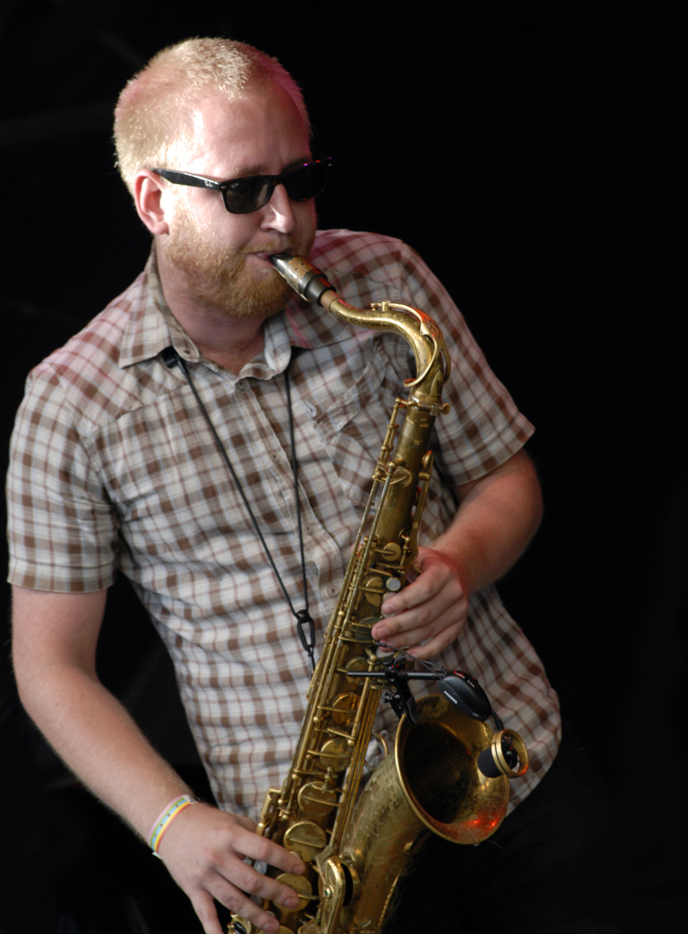 Jonas Kullhammar from Sweden performing at Stockholm JazzFest09